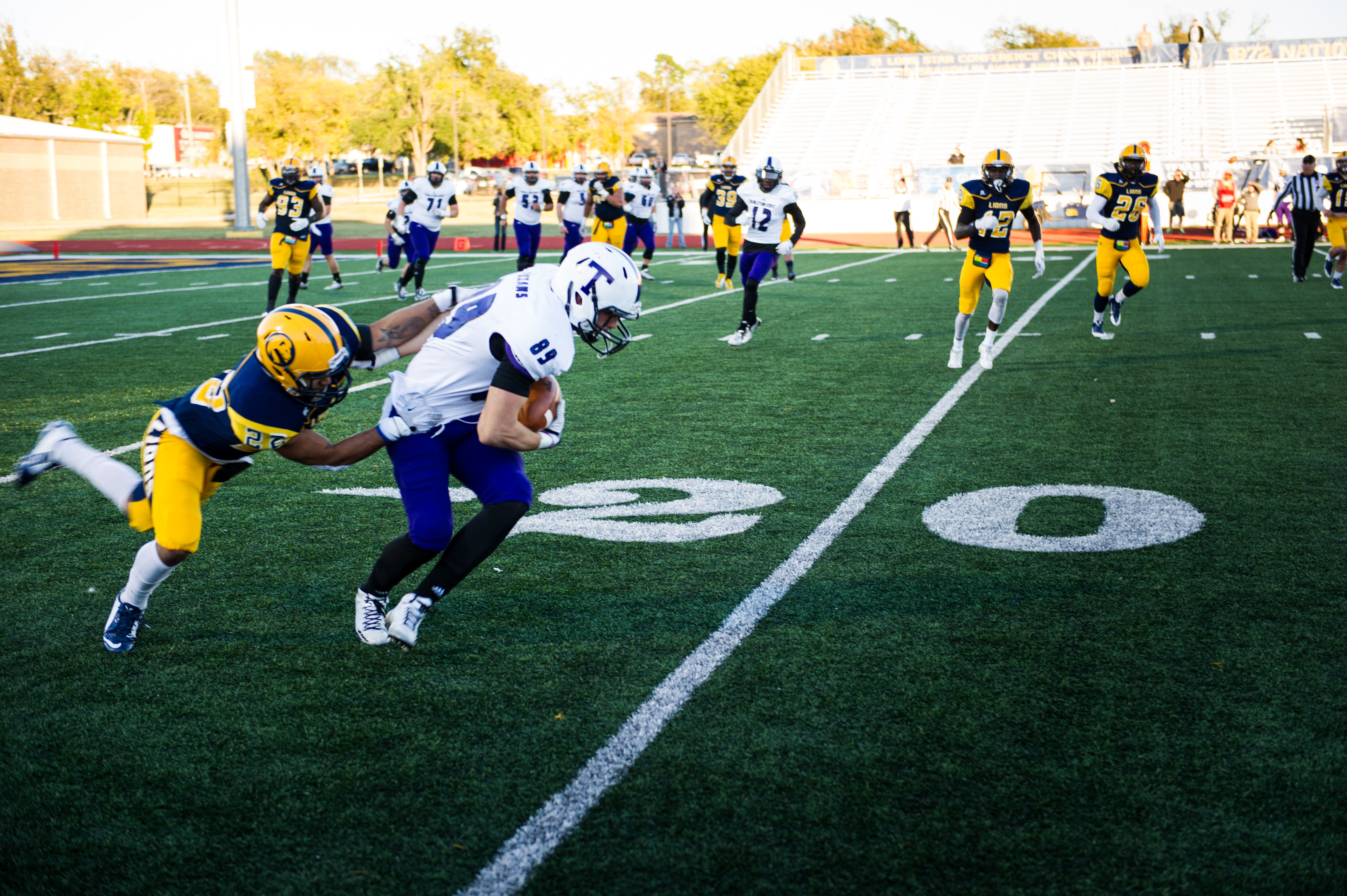 Athletics-Football-5757.jpg Scenes from the Tarleton State Texans vs. Texas A&M–Commerce Lions football game on November 8, 2014.